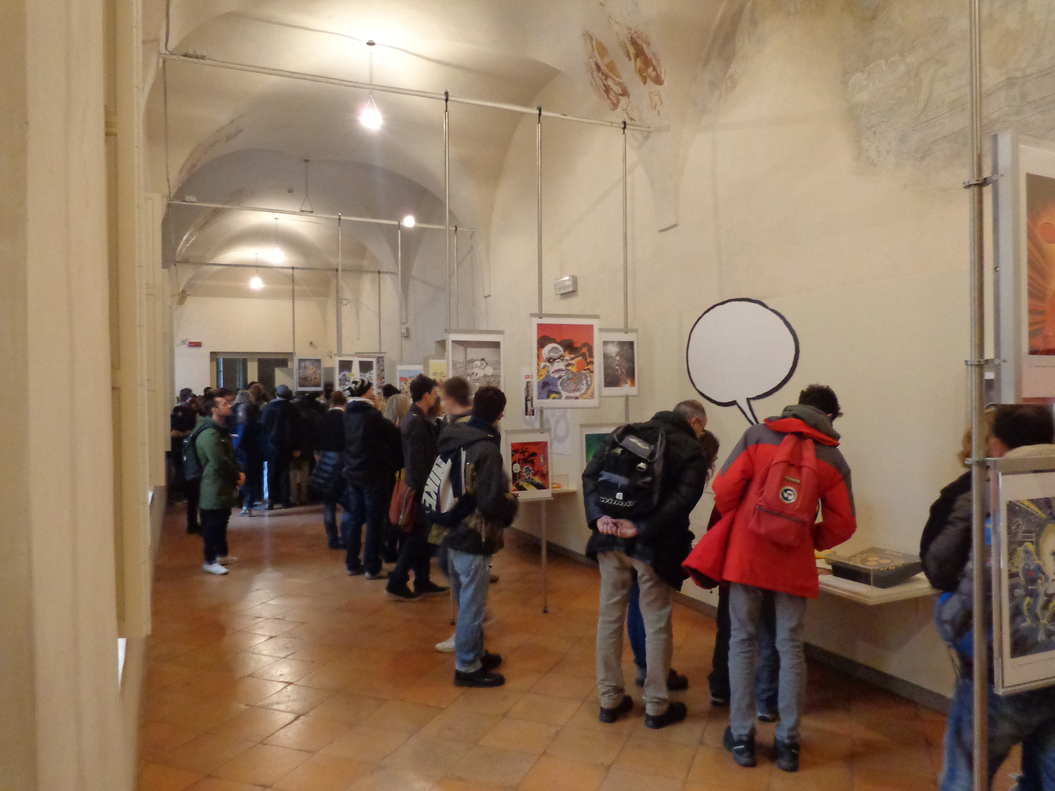 2014 Rat-Con in Parma (celebrations for the 100th issue of the comic Rat-Man)